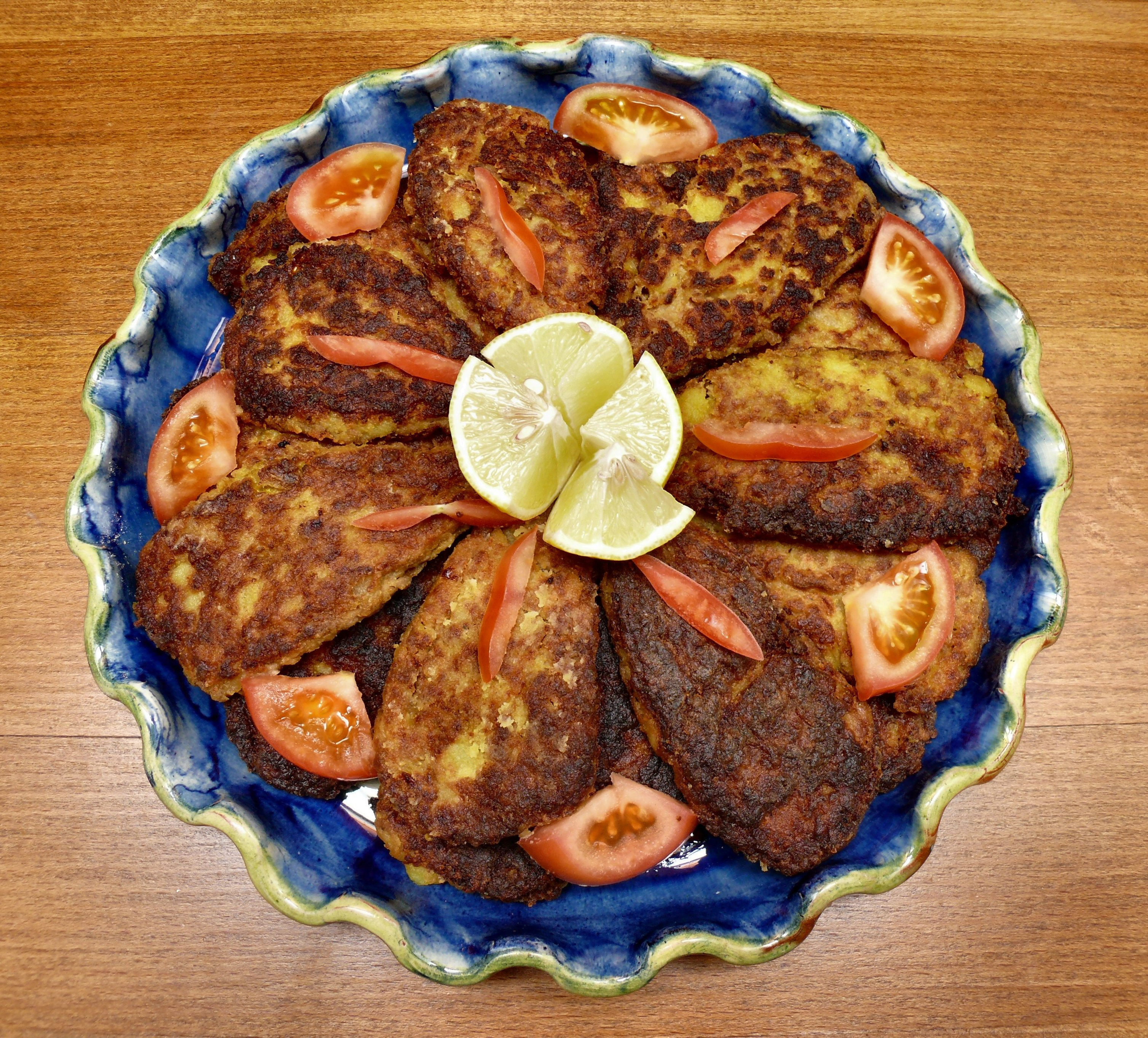 Kotlet made by Mahboubeh when my friend Sergiobello came home for dinner. Kotlet is a traditional iranian dish, mixing meet, oignons, garlic, potatoes, curcuma & other spices... Delicious indeed.